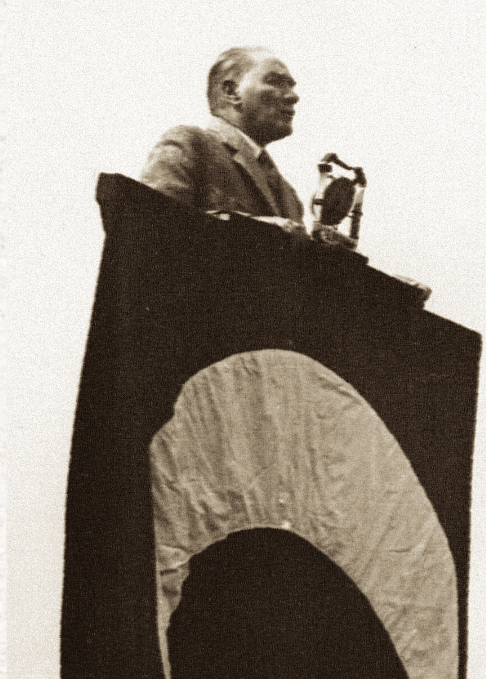 Kemal Atatürk (or alternatively written as Kamâl Atatürk, Mustafa Kemal Pasha until 1934, commonly referred to as Mustafa Kemal Atatürk; 1881 – 10 November 1938) was a Turkish field marshal, revolutionary statesman, author, and the founding father of the Republic of Turkey, serving as its first President from 1923 until his death in 1938. He undertook sweeping progressive reforms, which modernized Turkey into a secular, industrial nation. Ideologically a secularist and nationalist, his policies and theories became known as Kemalism. Due to his military and political accomplishments, Atatürk is regarded as one of the most important political leaders of the 20th century.